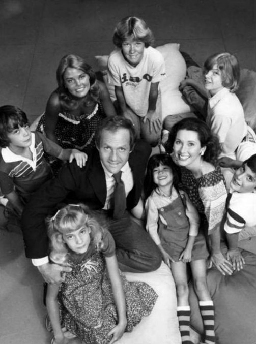 Photo of the cast of the television program Mulligan's Stew. Lawrence Pressman and Elinor Donahue are the adults. Children, clockwise: Julie Anne Haddock, K.C.Martell, Lory Kochheim, Suzanne Crough, Johnny Doran, Chris Ciampa, Sunshine Lee.